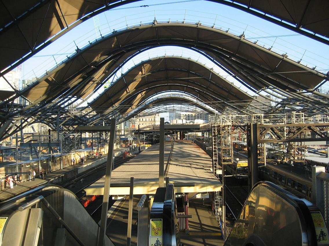 Work on the station in 2004.